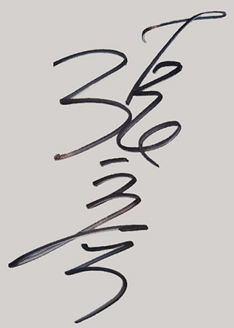 This is Pinky Cheung's signature.